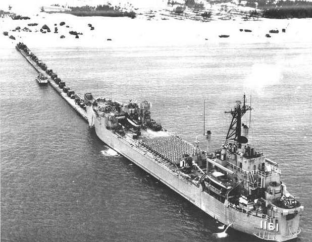 United States Navy tank landing ship USS Vernon County (LST-1161) unloading United States Marines and their equipment at Chu Lai, South Vietnam